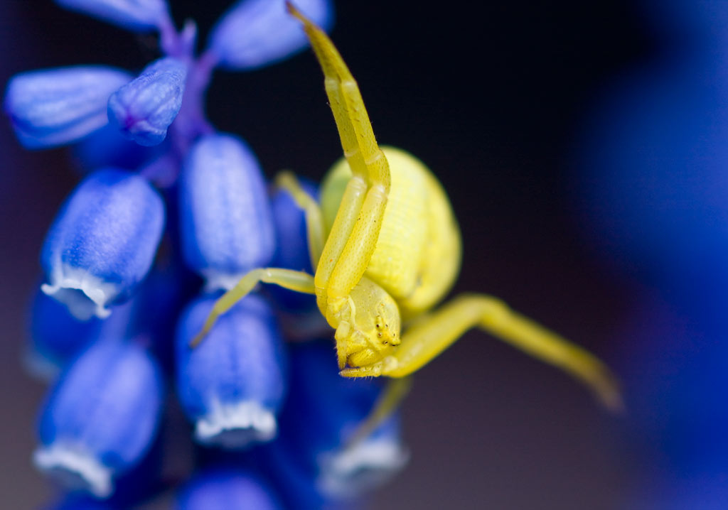 Misumena vatia